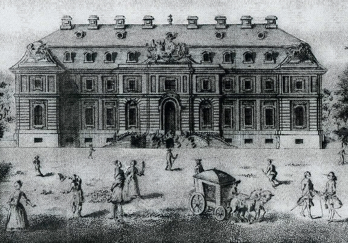 Palais Moszczyńska